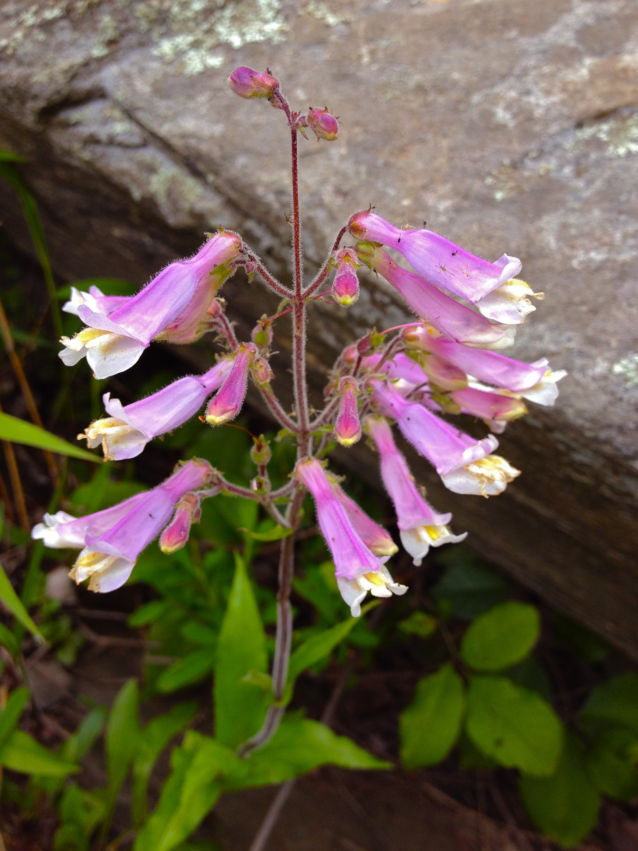 Photo of Penstemon hirsutus in flower. This is a native plant growing wild in the C & O Canal National Historical Park, Montgomery county Maryland, USA. This species is a member of the Plantaginaceae family.